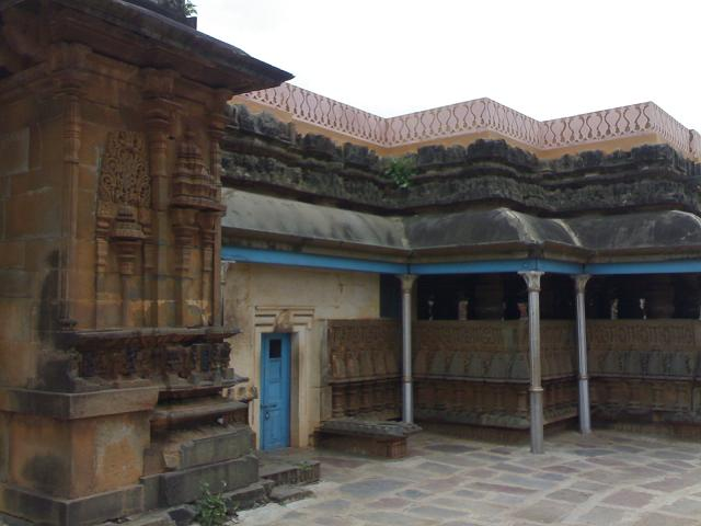 Kundgol Shambhulinga_temple 15 km from Hubli Author and Source : Manjunath Doddamani, Gajendragad, Karnataka (North), India